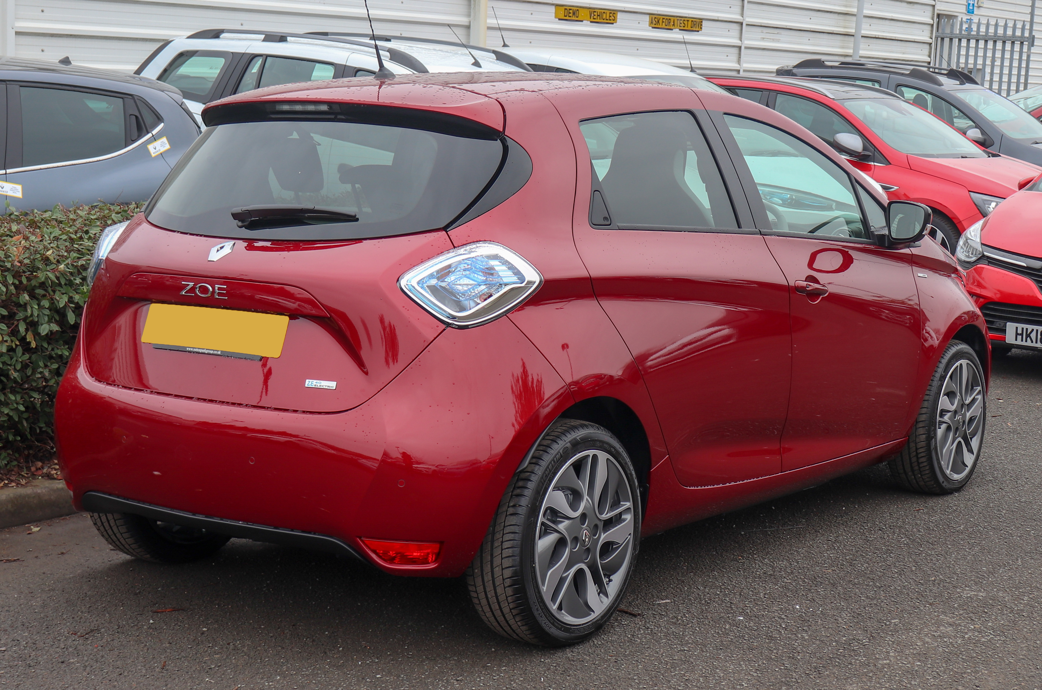 2019 Renault ZOE Dynamique Rear Taken in Leamington Spa